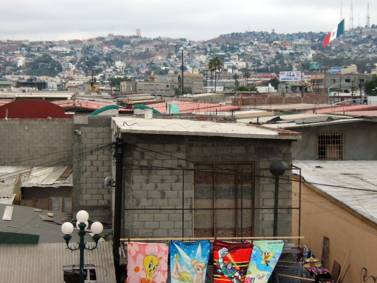 view of Tijuana, Mexico